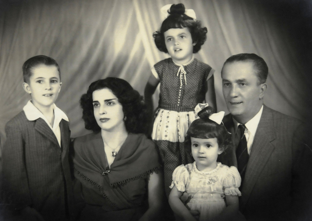 Family of Brazilian president Dilma Rousseff (left to right): Igor (brother), Dilma Jane Silva (mother), Dilma Rousseff (as a child), Zana Lúcia (sister), and Pedro Rousseff (originally Pétar Rusév; her Bulgarian father).